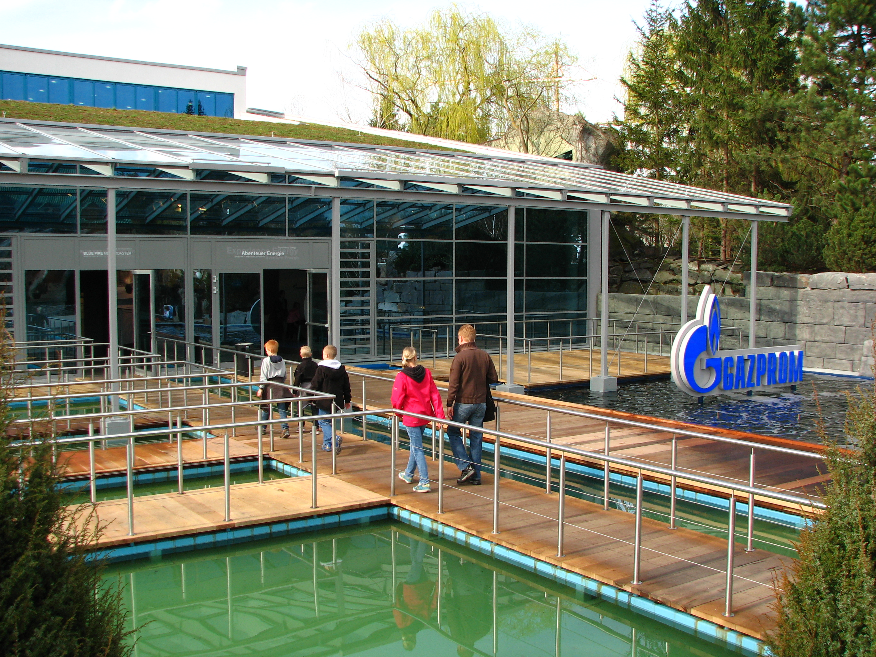 Gazprom Hall, Europa-Park, Rust, Baden-Württemberg, Germany.